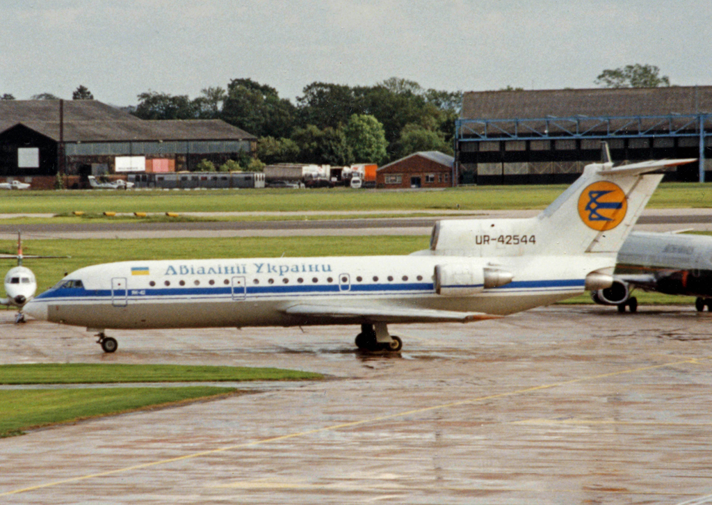 Yak-42 UR42544 of Air Ukraine at Manchester Airport on a service to Lvov